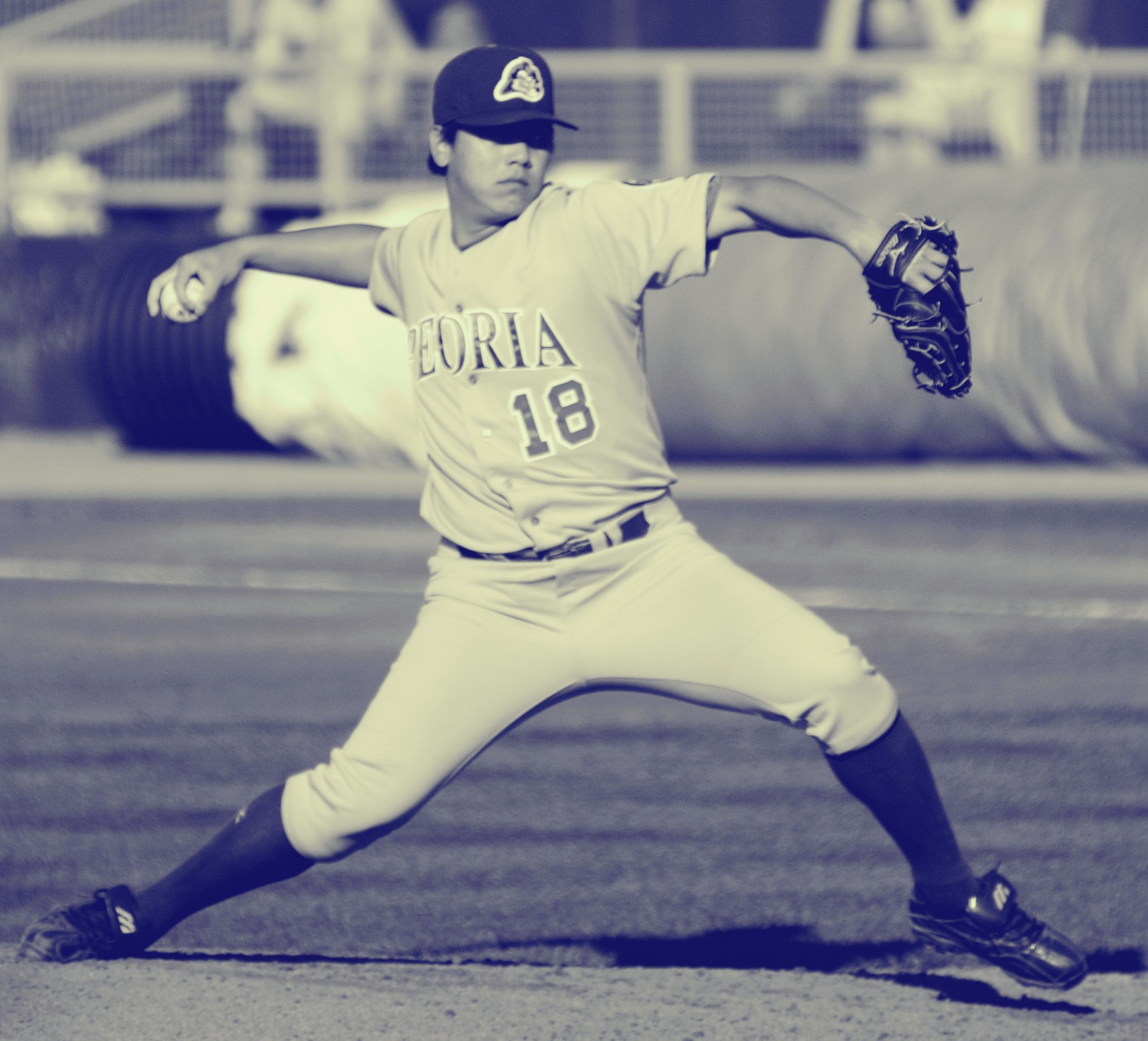 Hung-Wen Chen on April 23, 2008 with Peoria Chiefs.